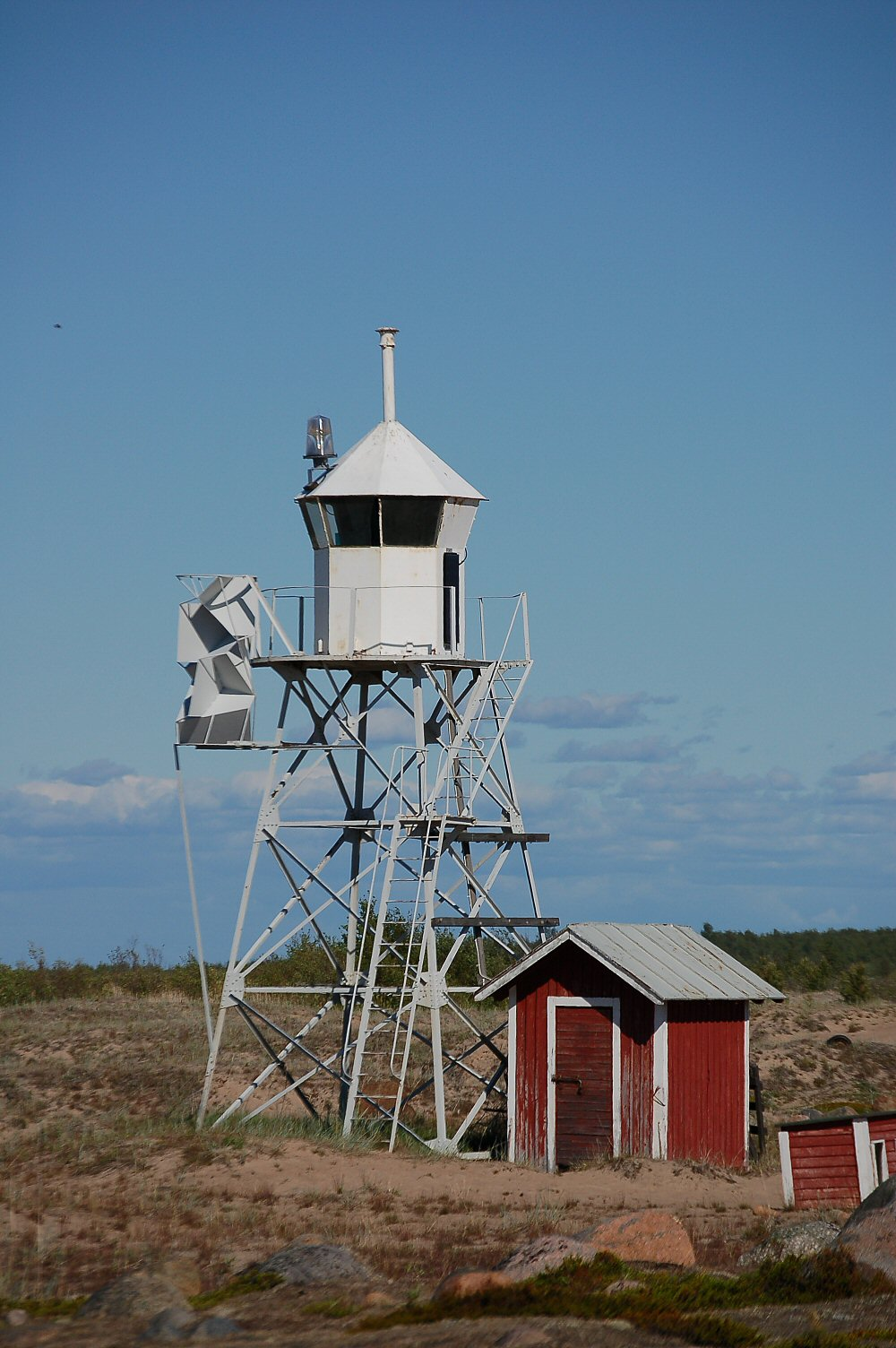 Beacon at Keskiniemi, Hailuoto, Finland. The tower is equipped with radar reflector.